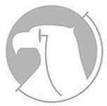 Logo of the CIA World Factbook, adopted in 2014